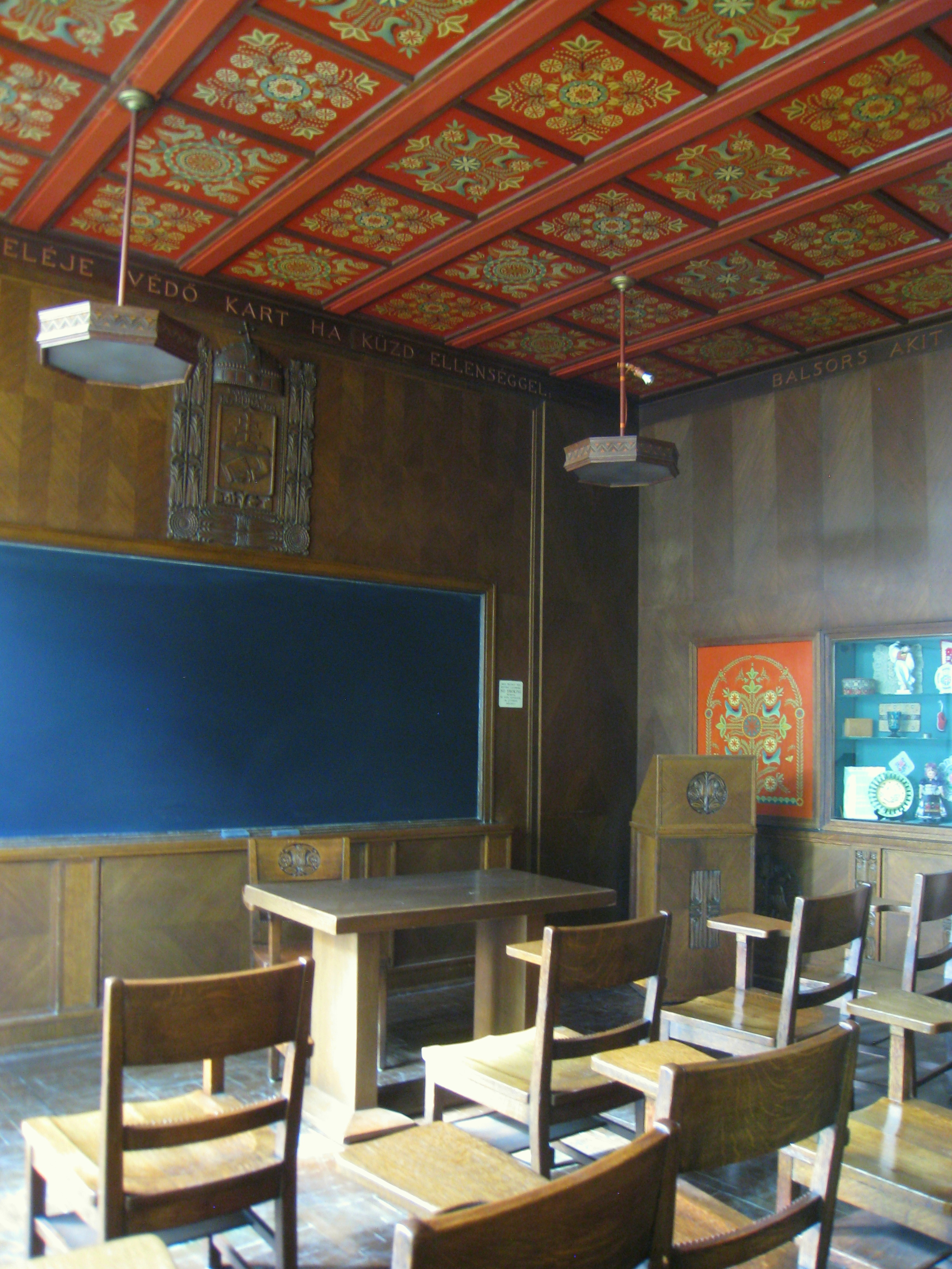 Hungarian Room, Cathedral of Learning, University of Pittsburgh, Pittsburgh, Pennsylvania, USA.